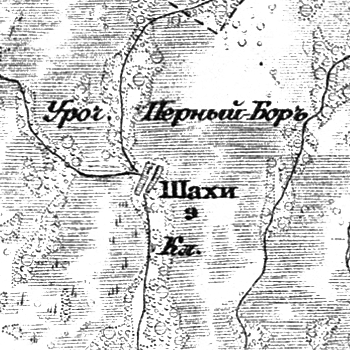 Shakhy on the map "Военно-топографическая карта Российской Империи" (known as "Schubert's map"), XX 5, 1866-1887 (issued in 1913).